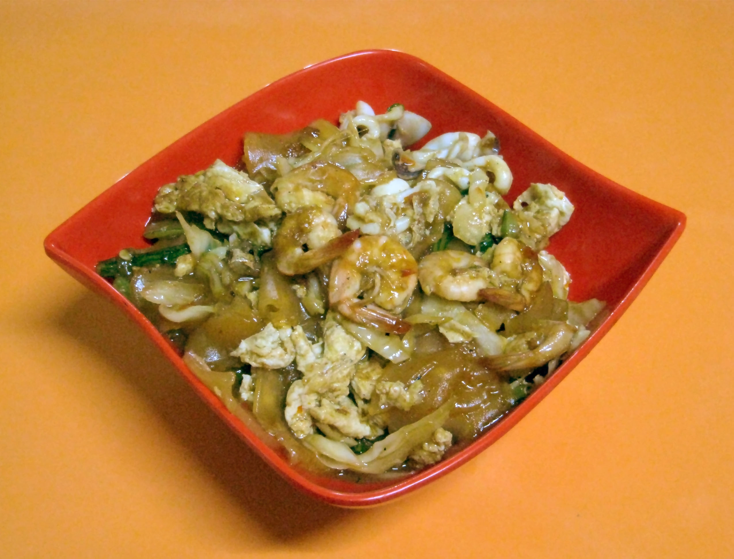 Seblak seafood, a specialty of Bandung city, West Java, Indonesia. Seblak is a savoury and spicy dish made of wet krupuk (traditional Indonesian crackers) cooked with scrambled egg, vegetables, and other protein sources, either chicken, seafood (prawn, fish and squid), or slices of beef sausages, stir-fried with spicy sauces including garlic, shallot, kecap manis (sweet soy sauce), and sambal chili sauce.